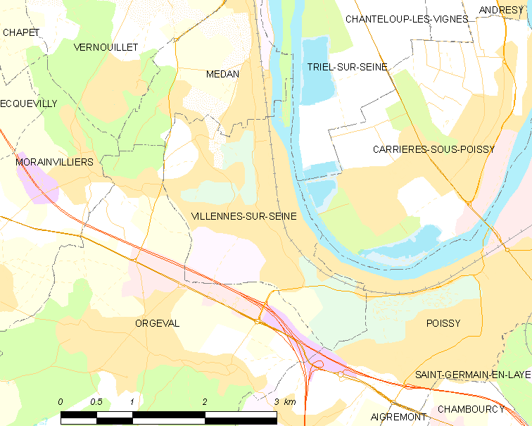 Map of French municipality Villennes-sur-Seine